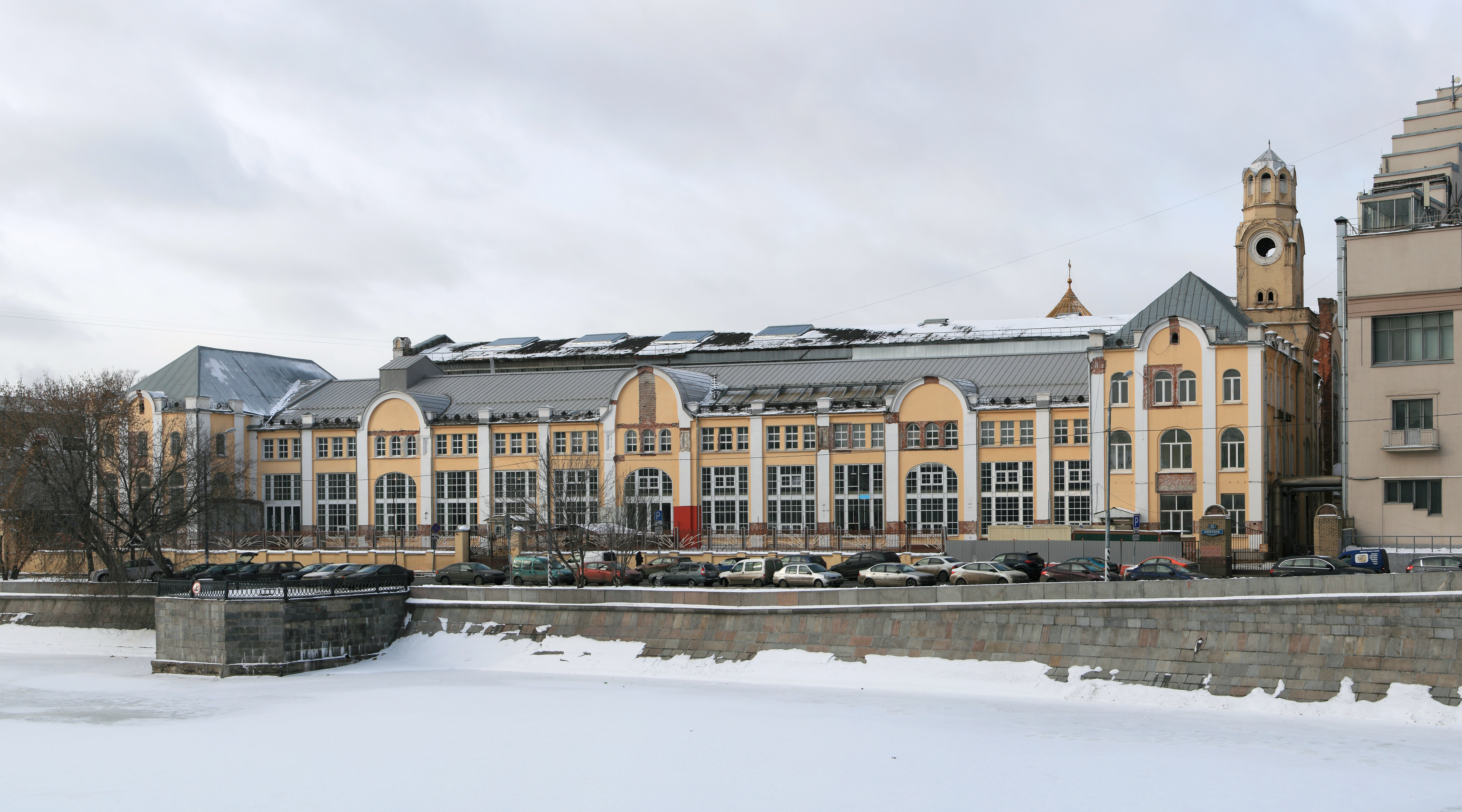 Power station, Bolotnaya Embankment 15, Moscow, Russia